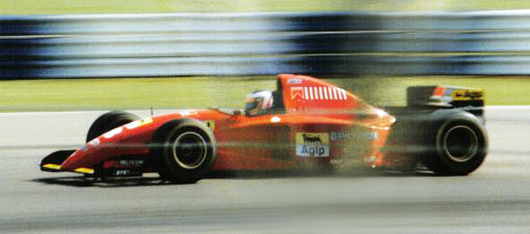 Gerhard Berger driving for Scuderia Ferrari at the 1995 British Grand Prix.